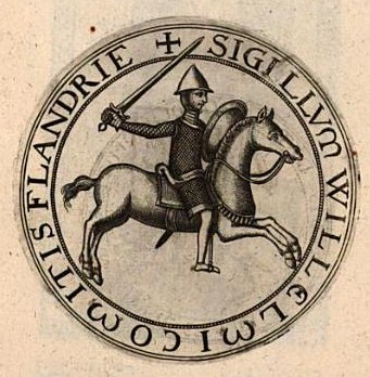 Guillaume Cliton